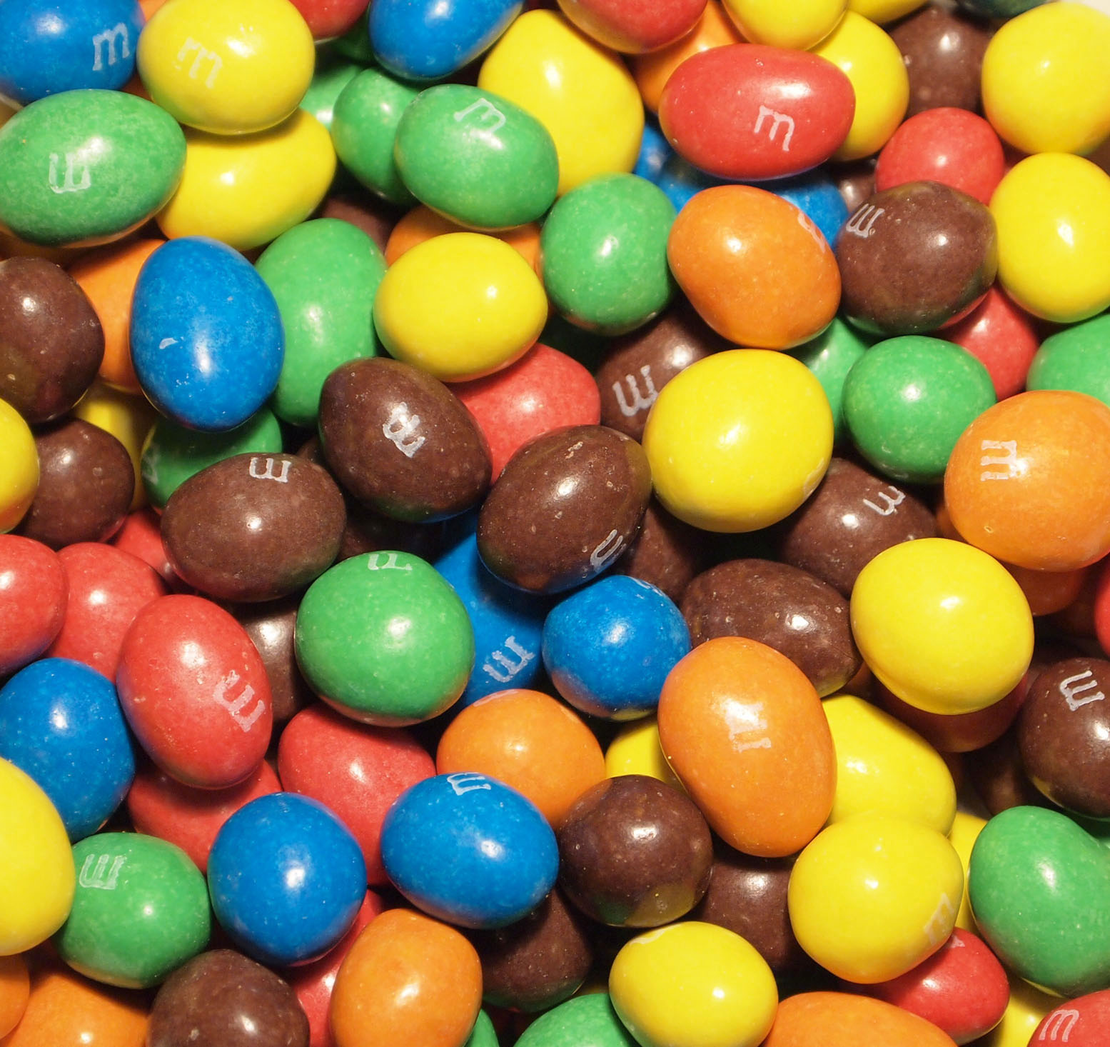 M&M peanut candy This photograph was taken with a Olympus E-PL1.